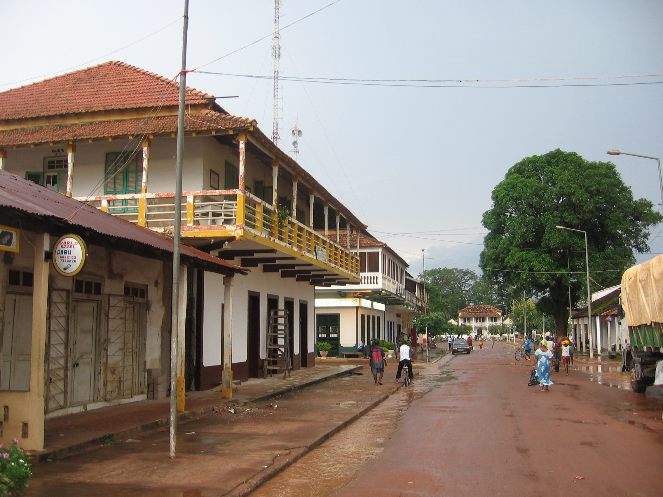 Main Street, Gabú, Guinea-Bissau.